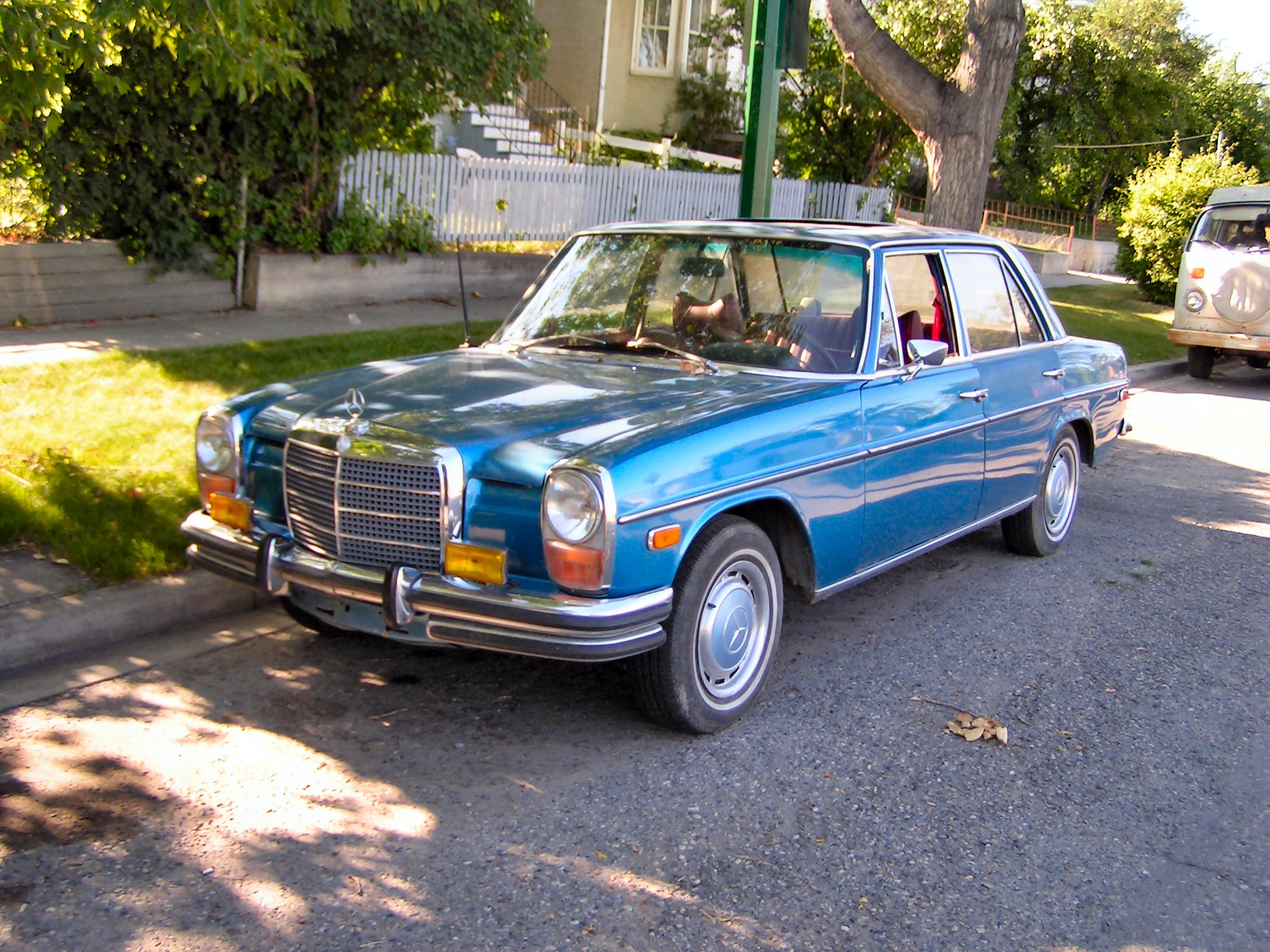 1971 Mercdes Benz 250 - also known as /8.